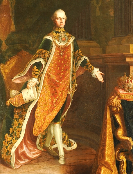 Joseph II as Grand Master of the Royal Order of Saint Stephen of Hungary